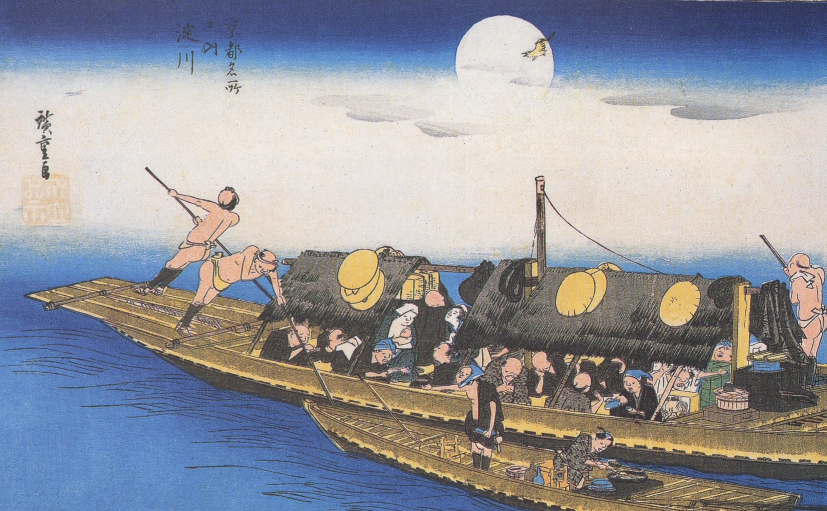 Views of Kyoto - 1. Passenger Boat on the Yodo River